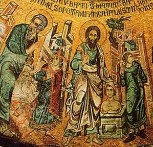 Mosaic in baptistery of San Marco